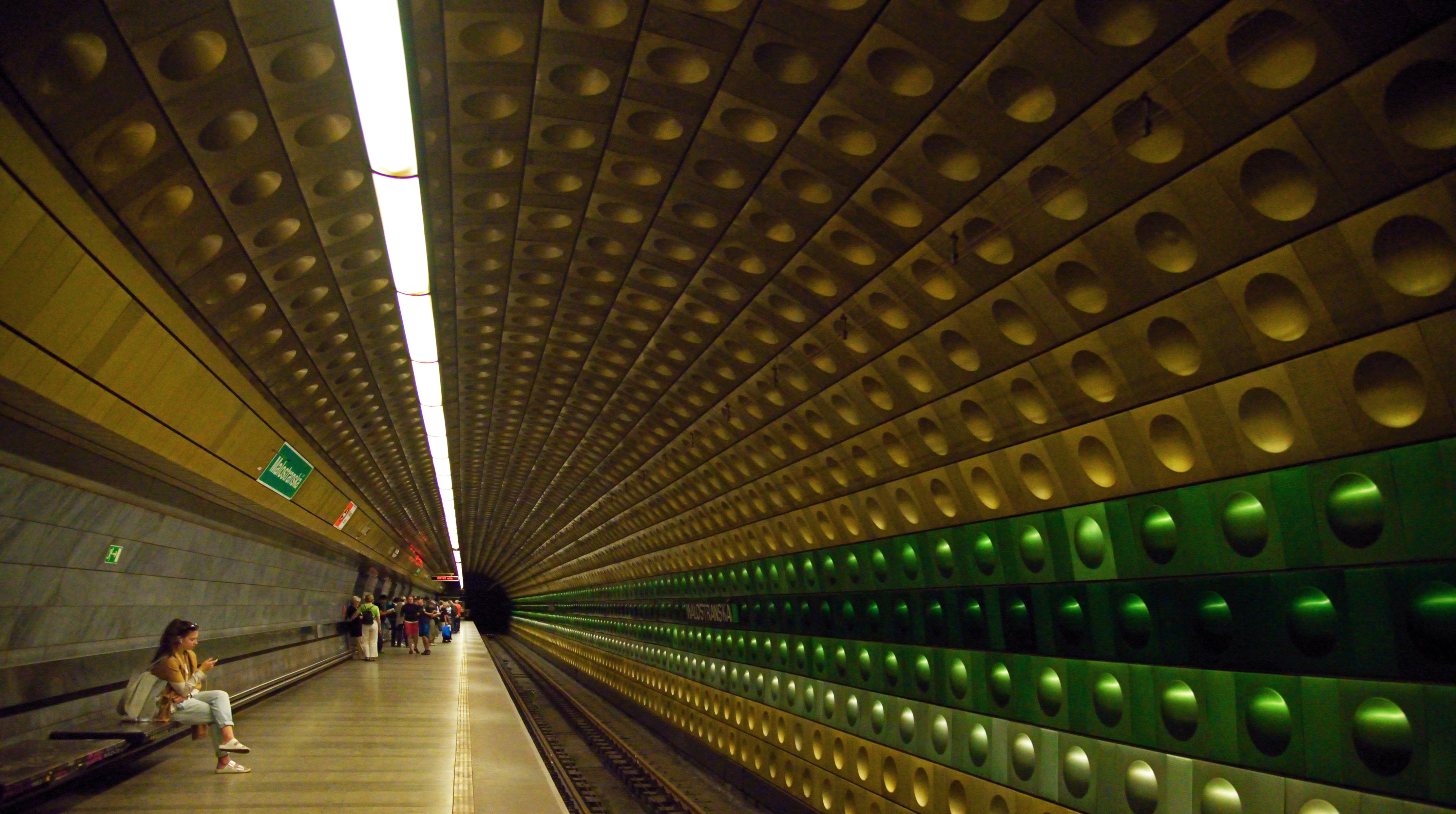 Malostranská station on line A, Prague Metro